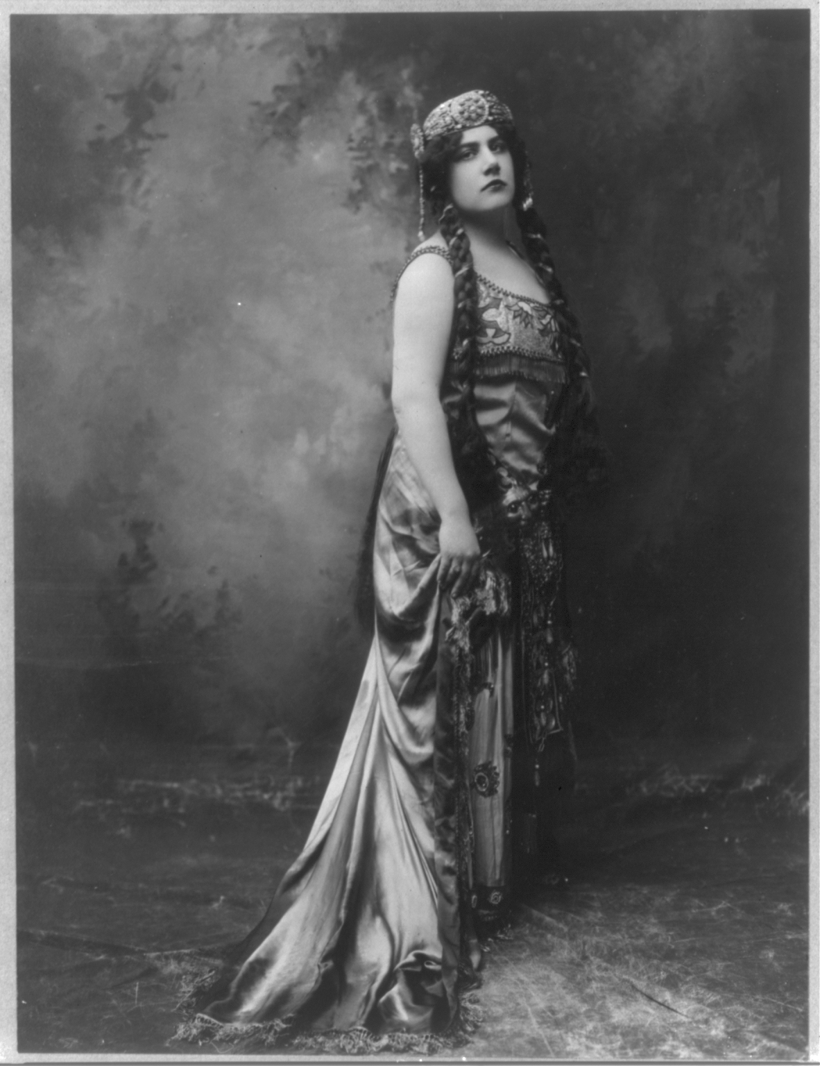 Emmy Destinn, 1878-1930, full-length portrait, facing right, in costume